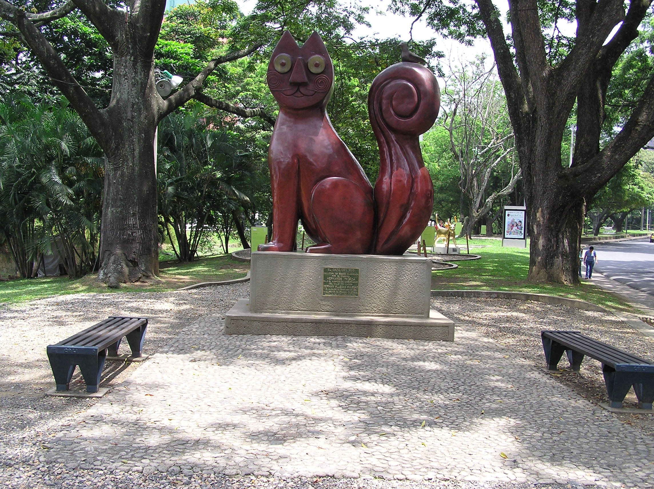 Tejada's Cat, Cali Colombia